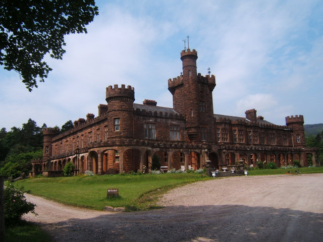 Kinloch Castle Kinloch castle Isle of Rum